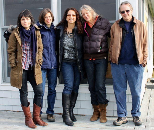 Writing Retreat 2013 - Sarah Braunstein, Susan Faludi, Kristen Ghodsee, Annie Finch, Pope Brock